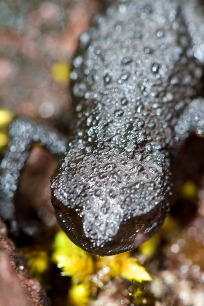 Endemic amphibia of mount Roraima, Venezuela